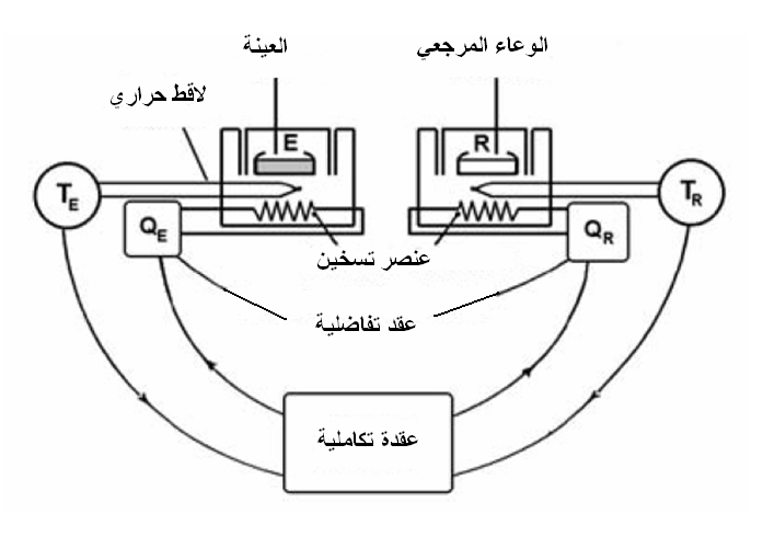 Differential scanning calorimetry